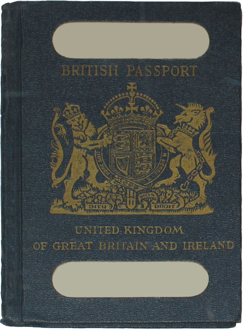 Scan of pre-1927 passport from the United Kingdom of Great Britain and Ireland. Typed passport number (top box) and hand-written name (bottom box) have been removed from the image.